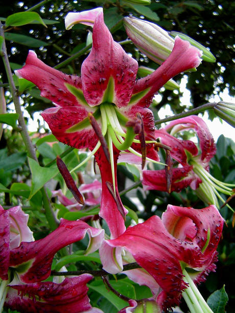 Lilium Hybrid 'Black Beauty' - oriental hybrid